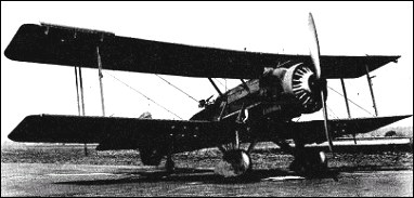 Vickers Vincent biplane